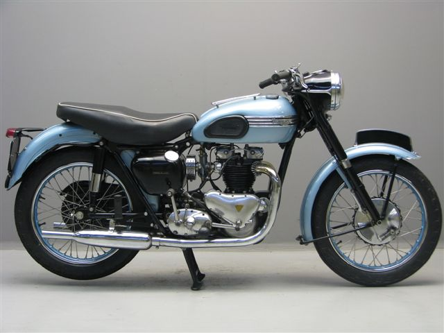 Triumph T 110 650 cc motorcycle from 1954